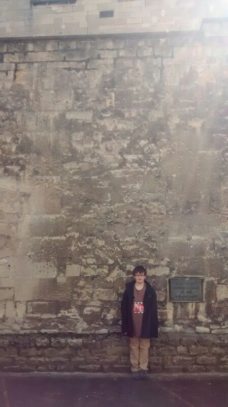 One of two surviving portions of the walls of Bath, Somerset.